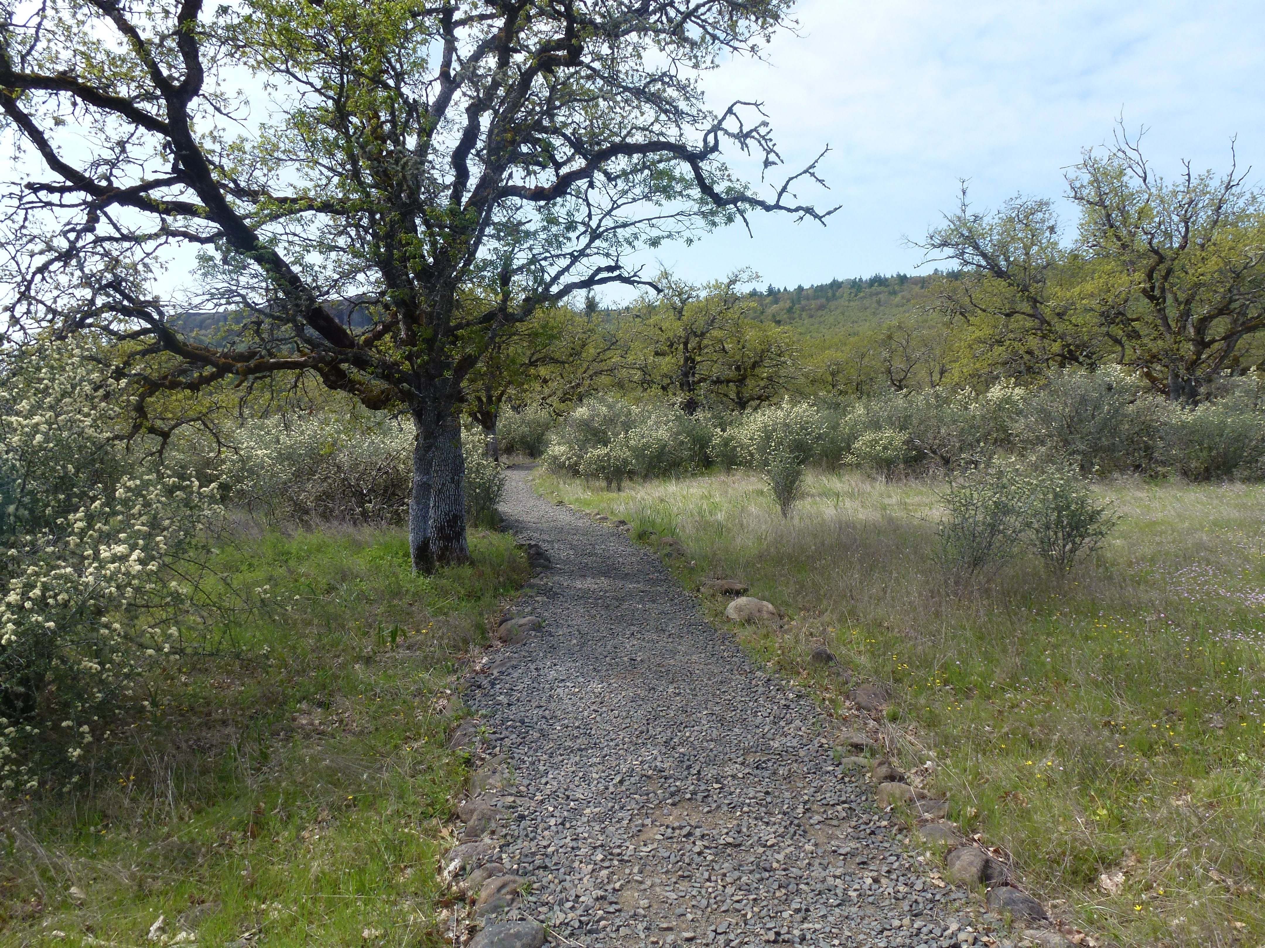 Walking through Oak Savanna on the Lower Table Rock trail.